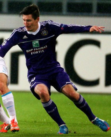 Sacha Kljestan 2012 1